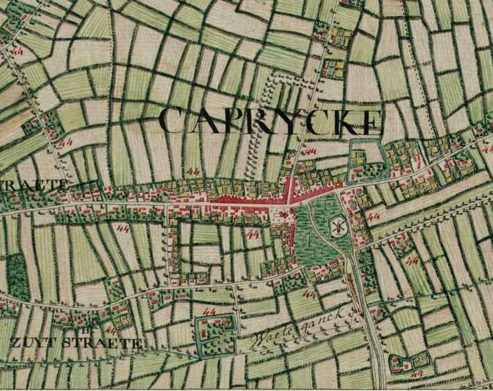 Kaprijke, Belgium_;_ detail from Ferraris_Map